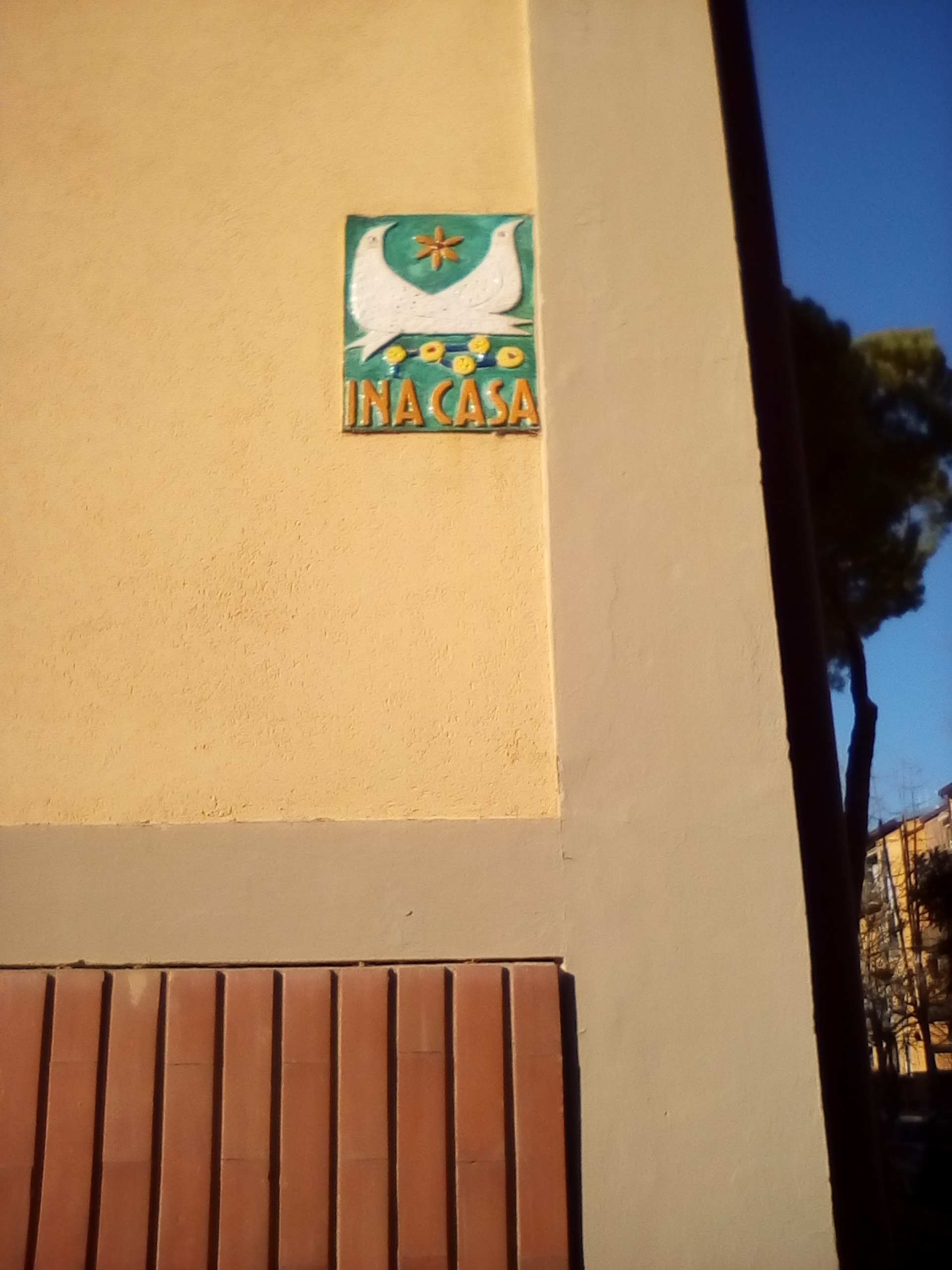 INA-casa logo